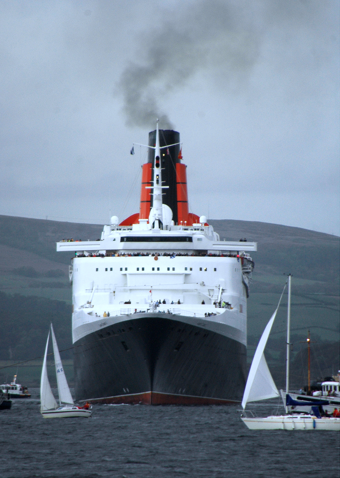 Queen Elizabeth II comes back to the River Clyde on her 40th Birthday. 20/9/2007 Thanks for removing the border - my error - mea culpa